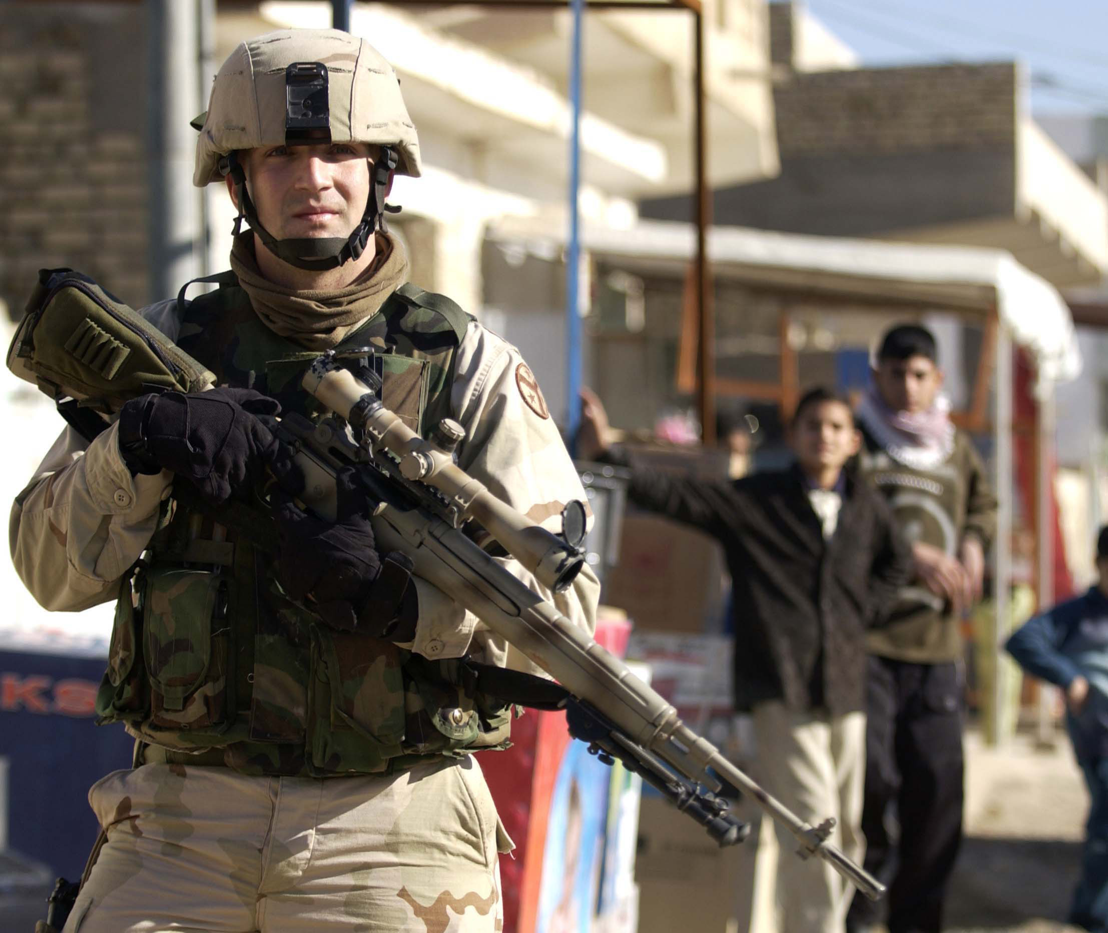 U.S. Army Sergeant Eddie Mathis, from the 278th Regimental Combat Team, 1st Infantry Division, patrols Balad Ruz, Iraq, with his M-21 sniper rifle in December 2004. This photo appeared on